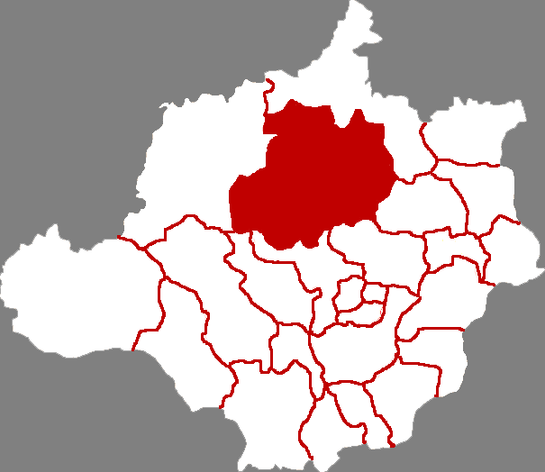 Location of Yi county in Baoding City, China